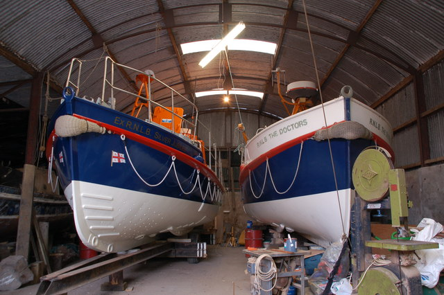 Two historic lifeboats On the left is the former Rother class lifeboat “Silver Jubilee “ built in 1977 and on station at Margate) and on the right is the former Oakley class boat “The Doctors” (built 1965 and on station at Anstruther). Both are under restoration. Note: photo on private property by invitation.